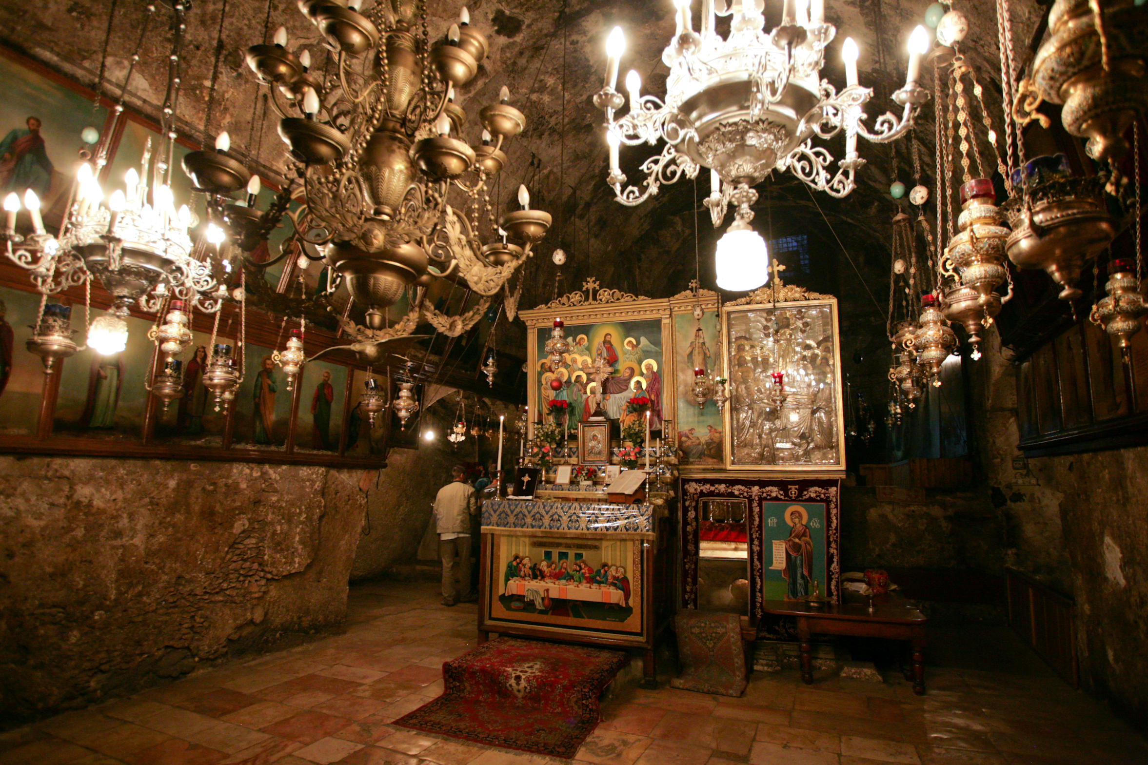 Tomb of the Virgin Mary. Altar.jpg